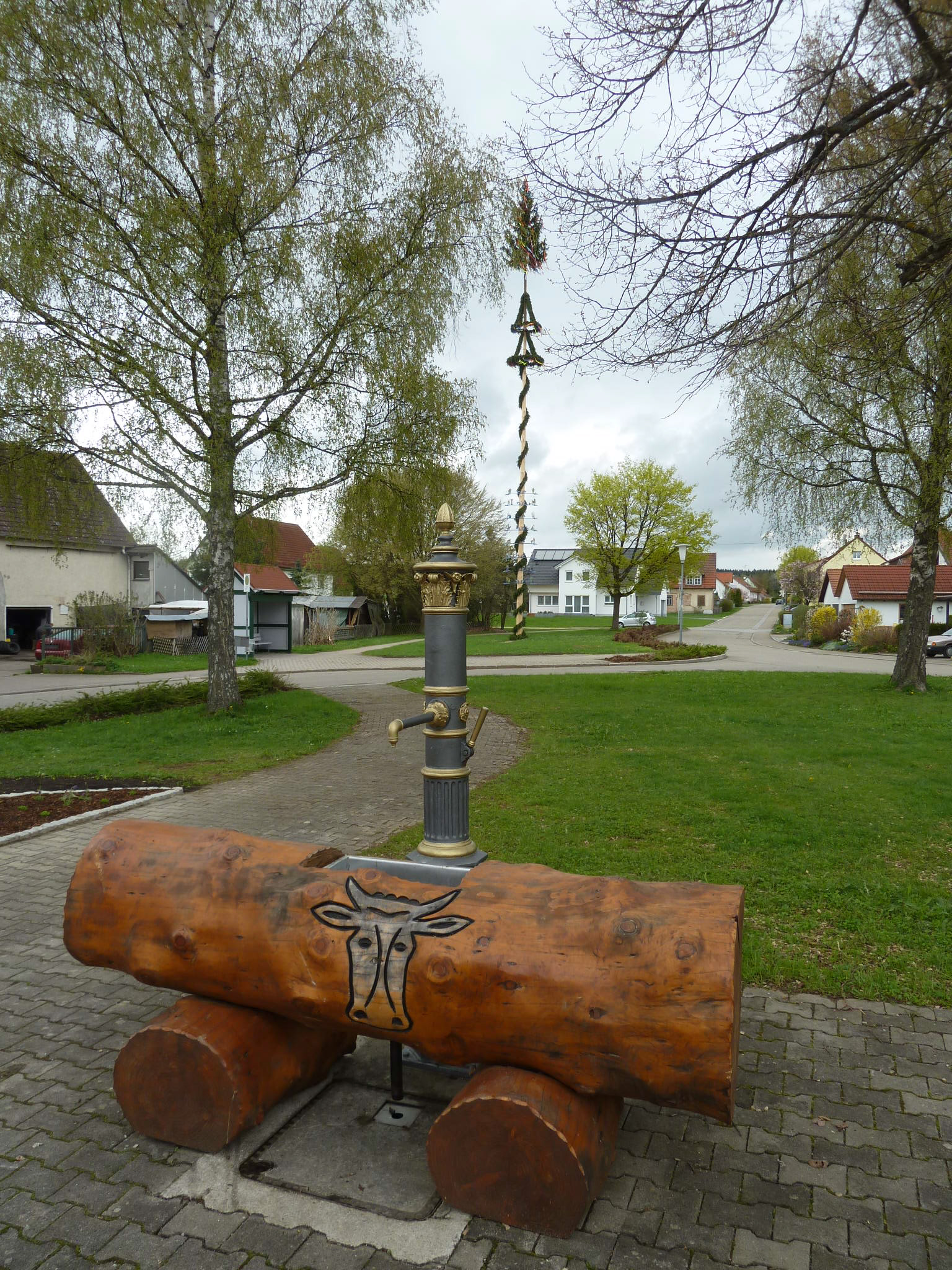 Lindenplatz with fountain 2013